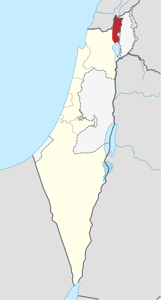 Galilee Panhandle region in Israel, based on the locations in file:Galilee he.svg.